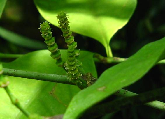 Male "flower" of Gnetum gnemon